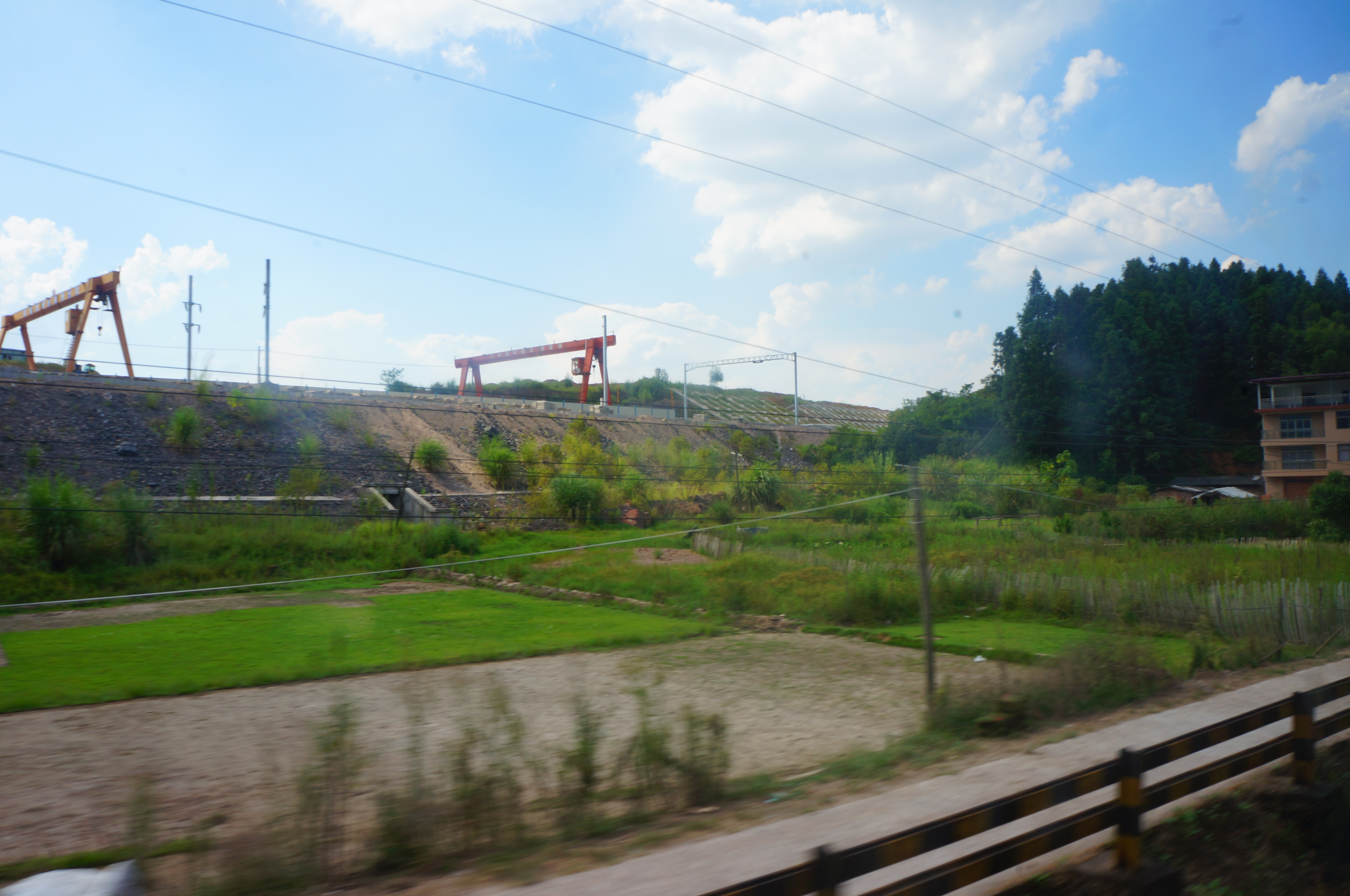 201708 Yong'annan Station under construction